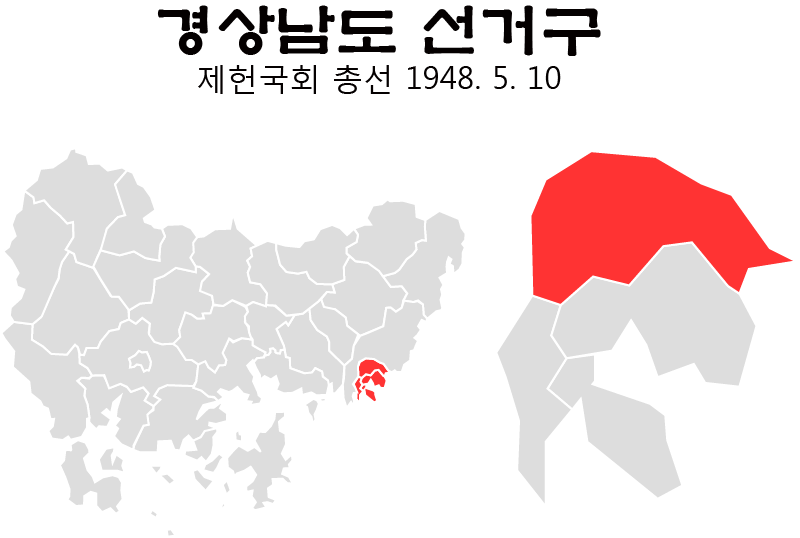 Busan A, Gyeongsangnam-do, Republic of korea constituency of the Constituent Assembly election